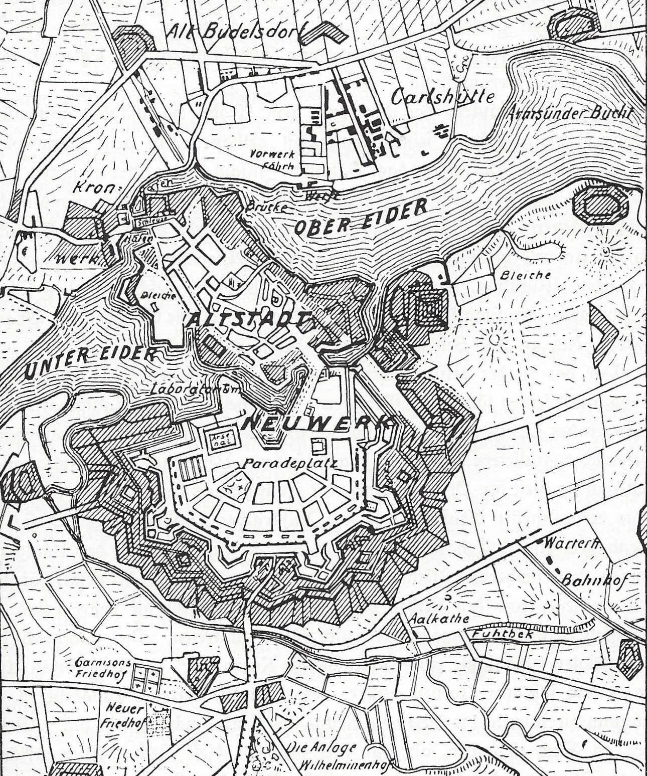 sketch of the fortress Rendsburg